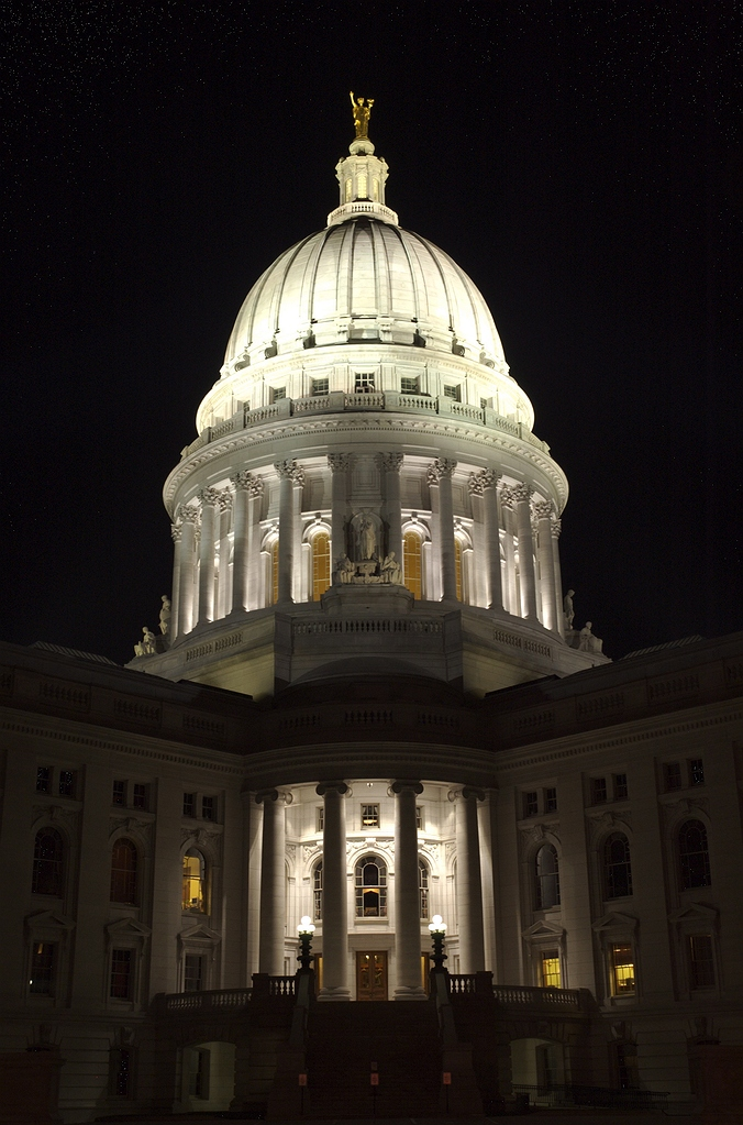 Wisconsin State Capitol by night